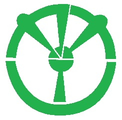 Kanan Osaka chapter